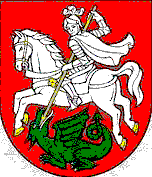 Plastovce-coat